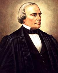 Portrait of Benjamin Robbins Curtis. Reproduction courtesy of the Supreme Court Historical Society.